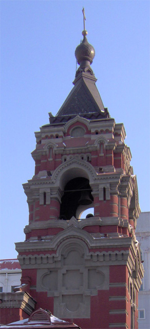 Top of the tower of Shikejie Church